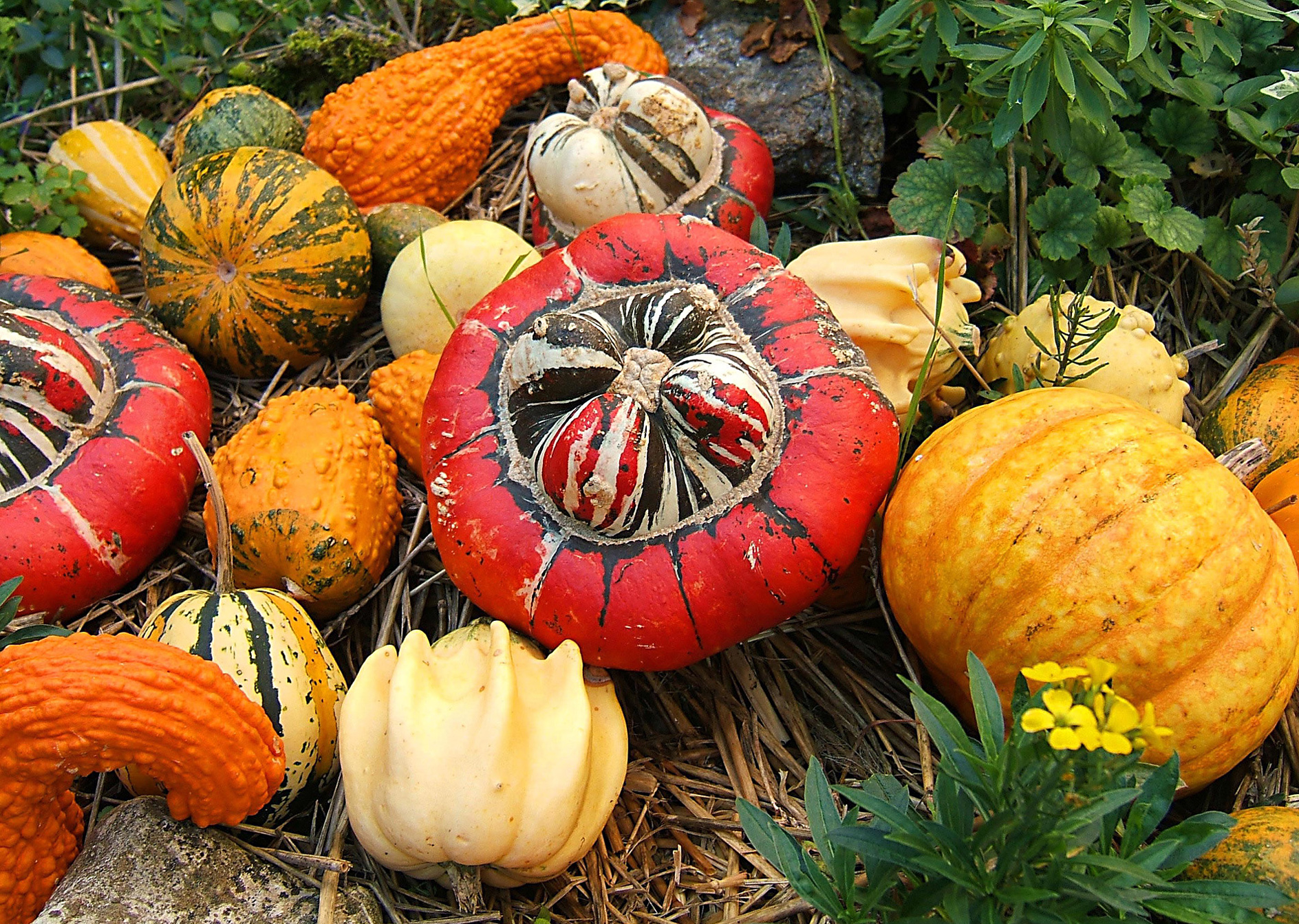 Cucurbits: Pumpkins and gourds, Cucubita maxima and Cucurbita pepo